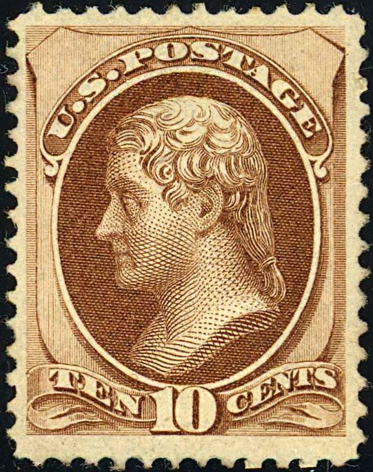 Thomas_Jefferson_1870_Issue-10c.jpg, no secret mark in scroll